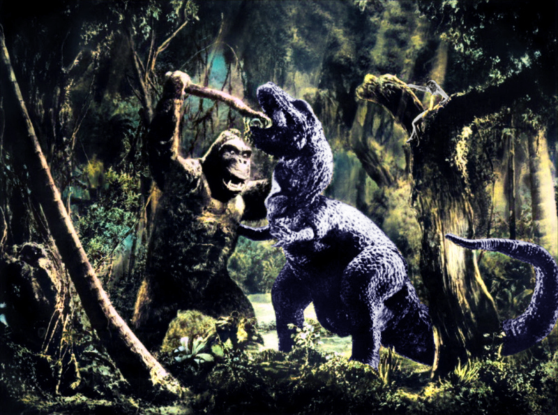 Colorized publicity shot of King Kong fighting a "Tyrannosaurus Rex" while Fay Wray looks on. Image is assumed to be in the public domain as no copyright notice has been attached.